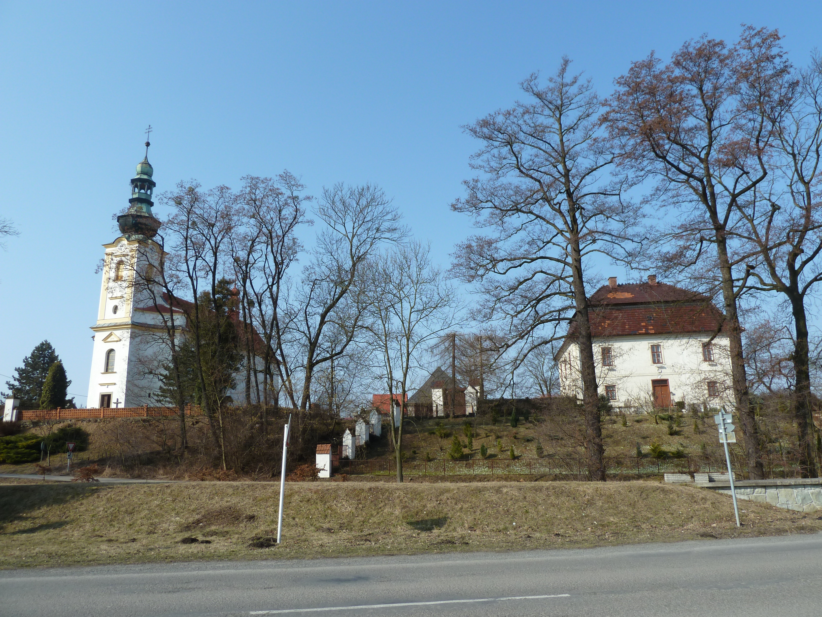 village Sedlnice (Nový Jičín district, nort-eastern Moravia, Czech Republic)